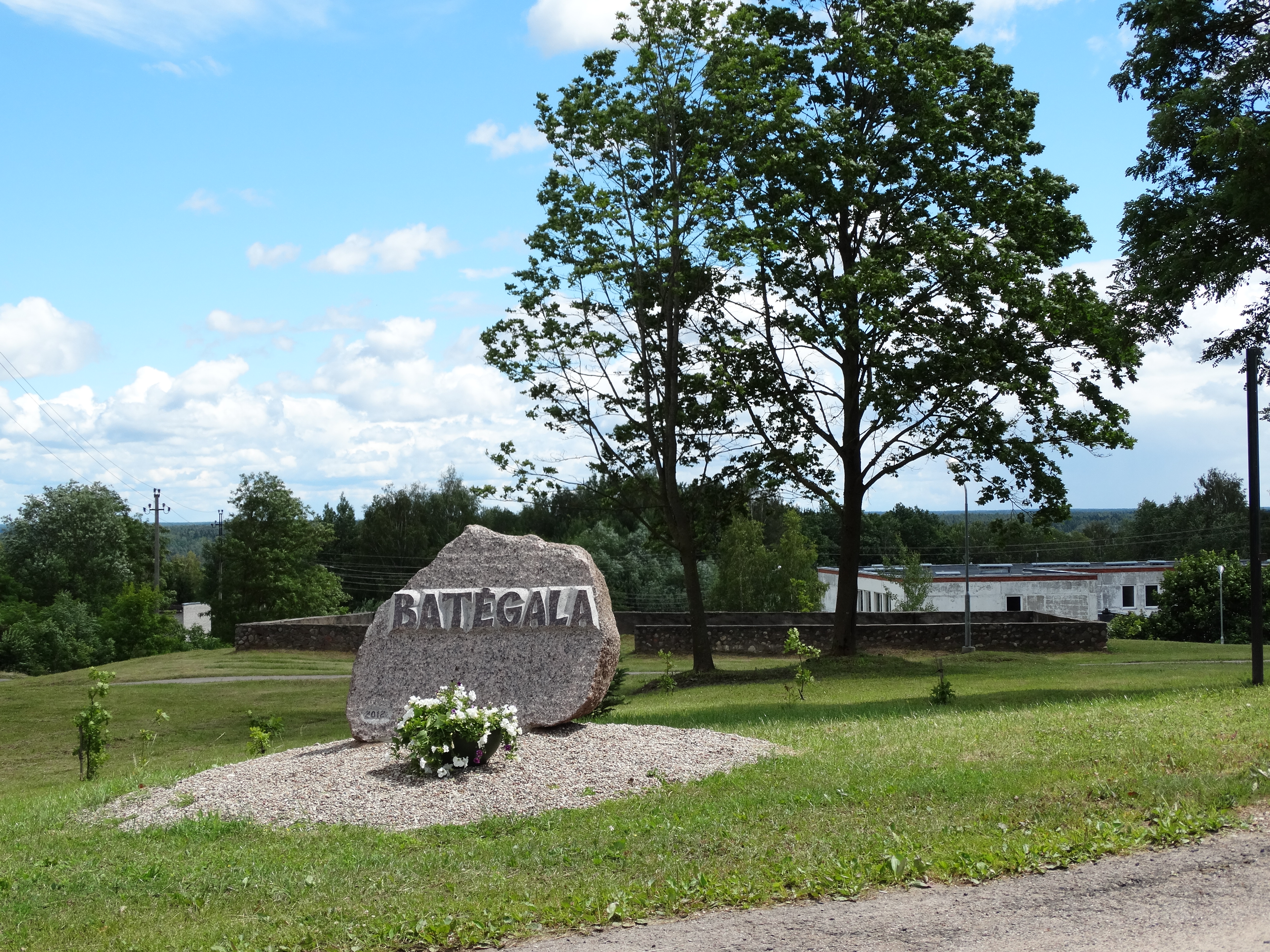 Boulder in Batėgala, Jonava district, Lithuania